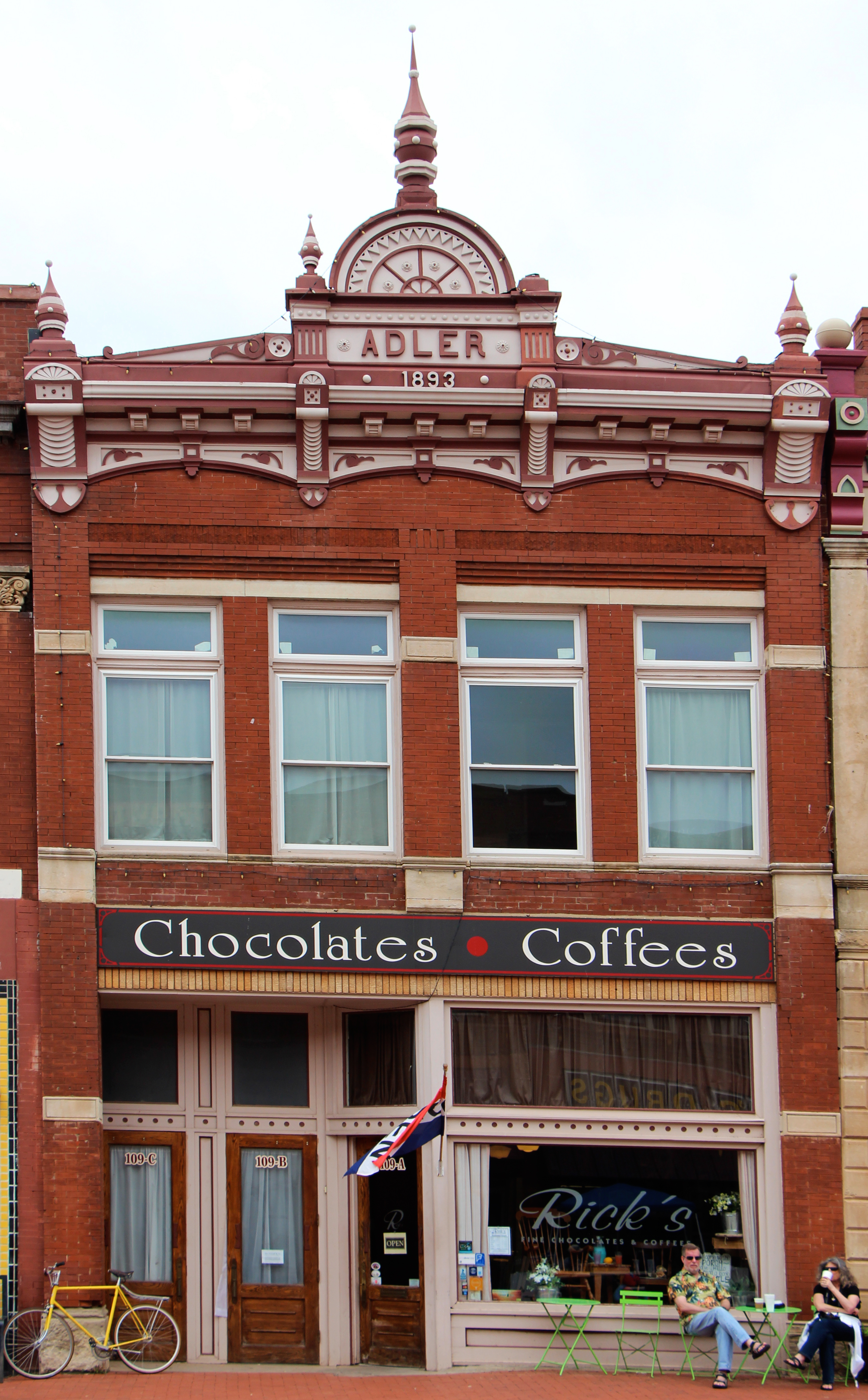 Adler Building, Guthrie, Oklahoma